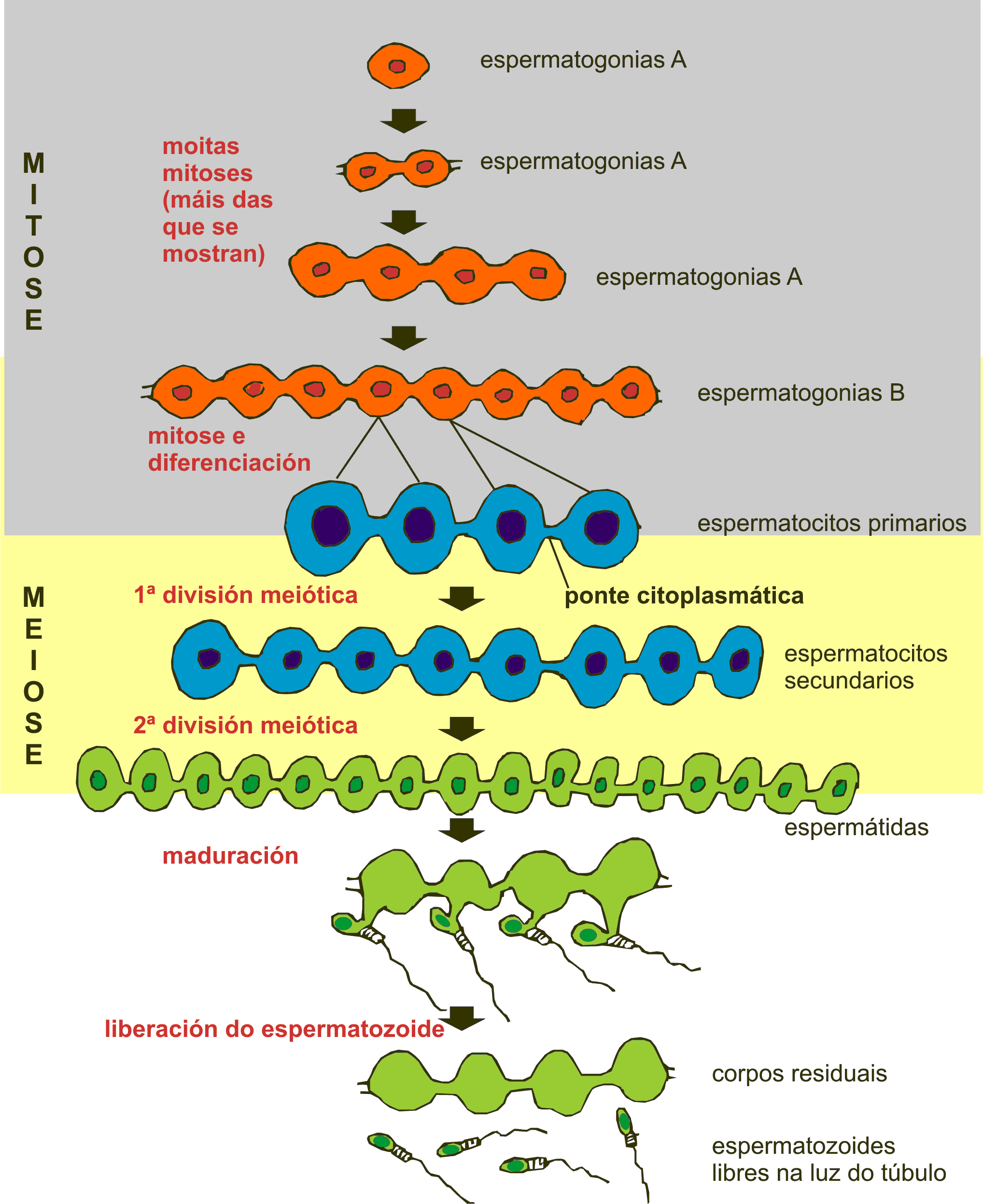 diagram of spermatogenesis labelled in Gallician language